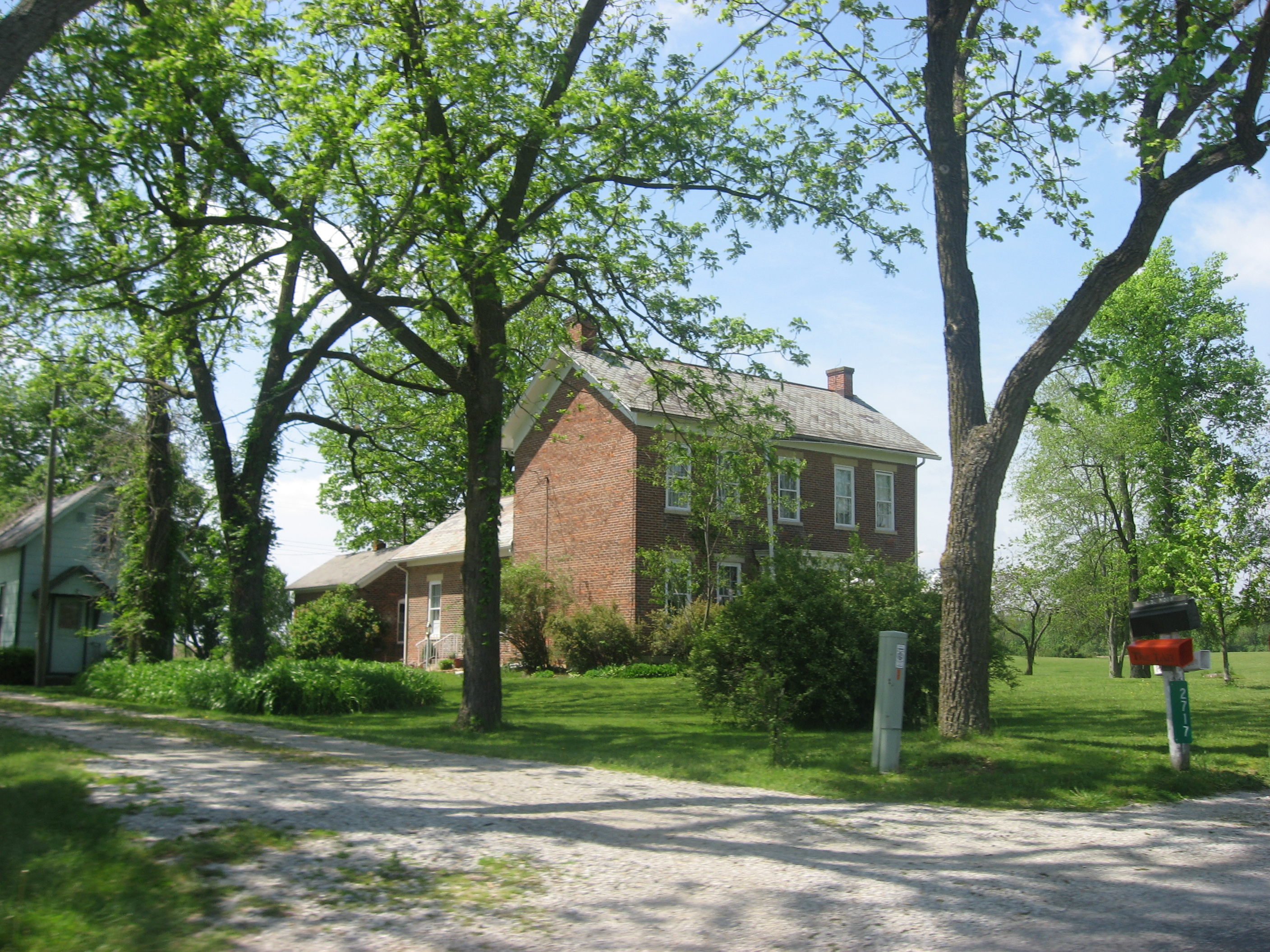 Roadside view of the John and Minerva Kline Farmhouse, located at 2715 E400N east of Huntington in Union Township, Huntington County, Indiana, United States. Built in 1865, the farmhouse is listed on the National Register of Historic Places together with the rest of the farmstead.